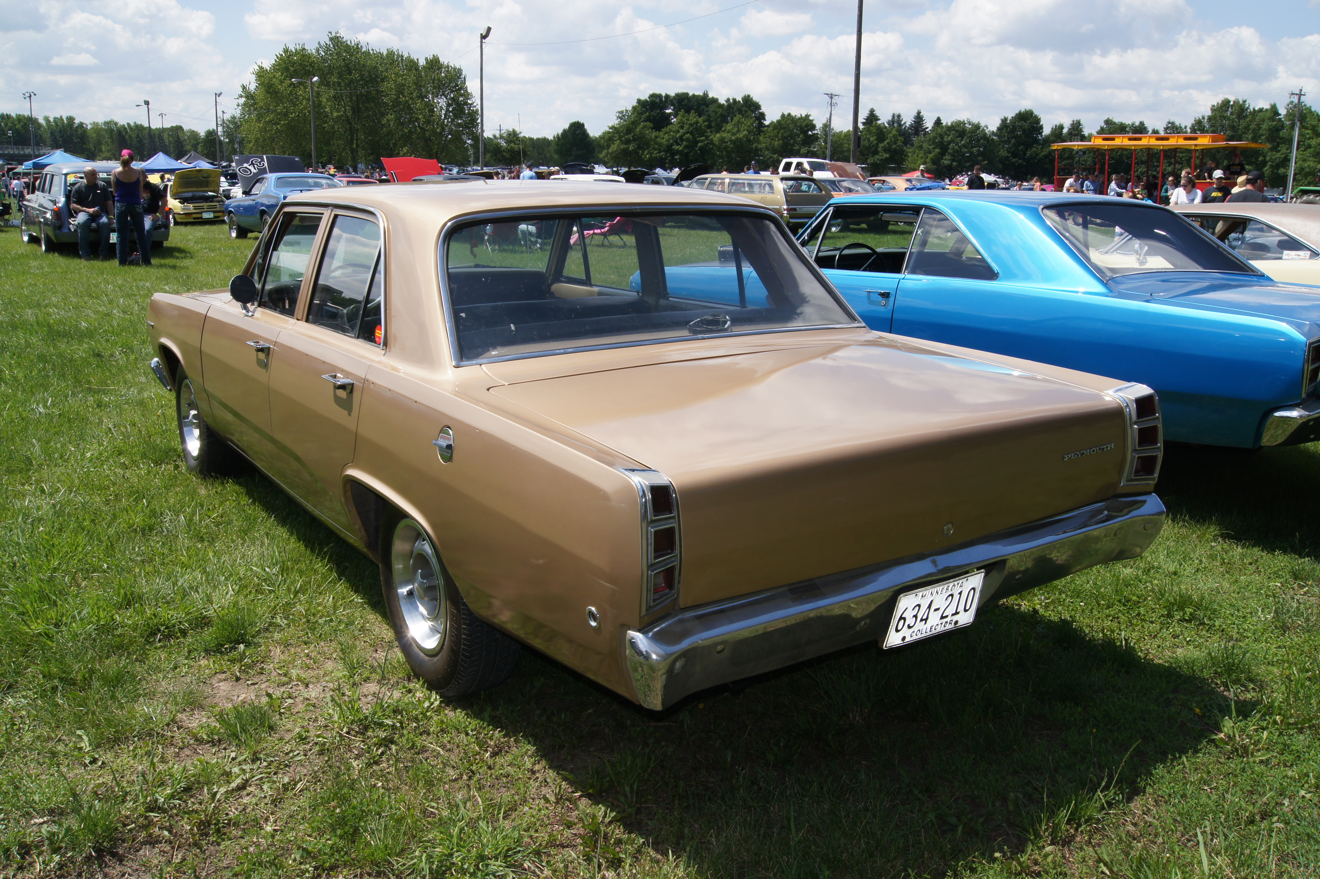 28th Annual Midwest Mopars in the Park June 2, 2012